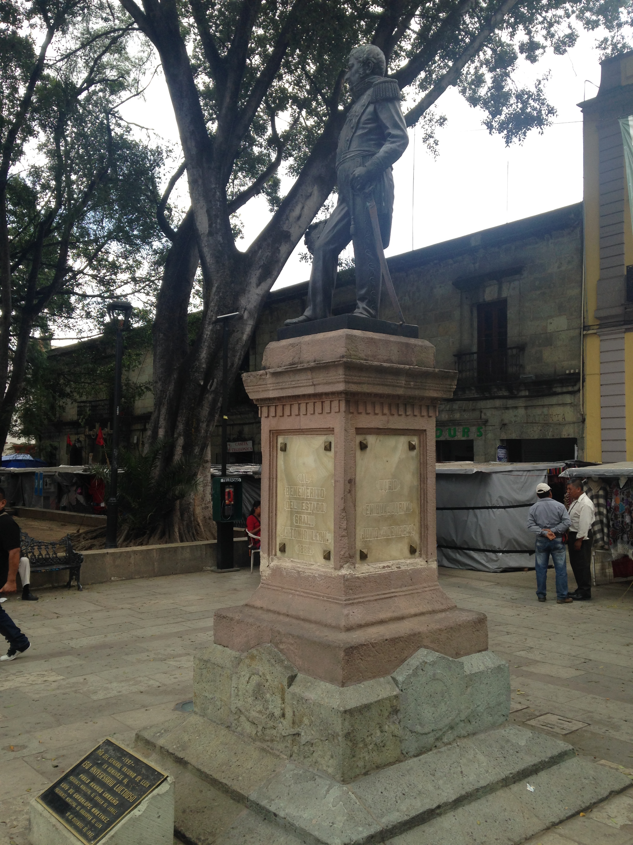 Monumento al General Antonio de León en la Alameda de León, Centro Histórico de Oaxaca. La escultura fue colocada el 8 de septiembre de 1885.